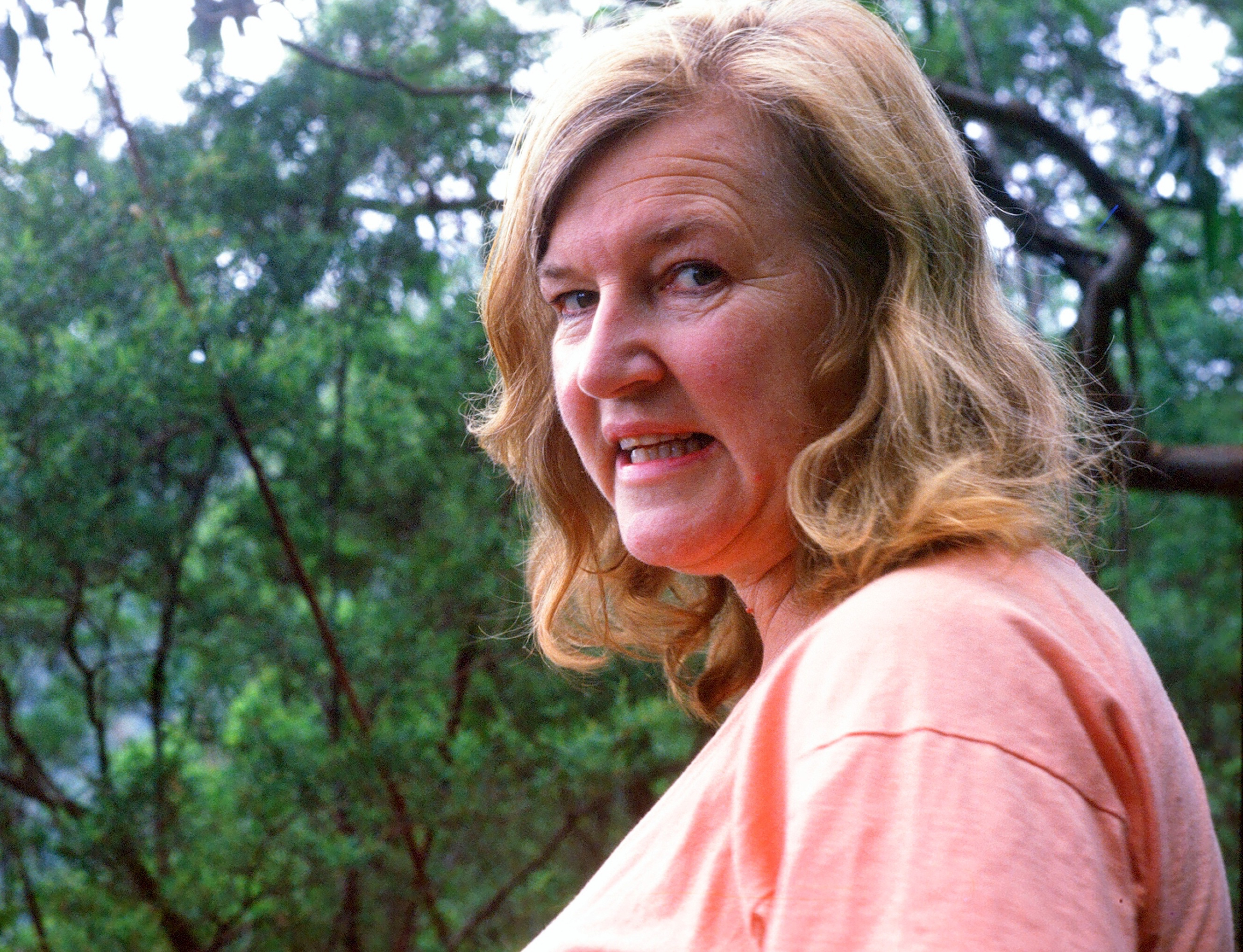 Val Plumwood, Australian philosopher